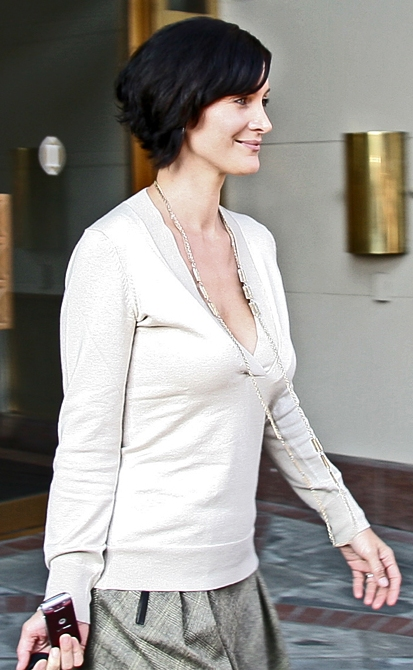 Carrie-Anne Moss at the 2007 Toronto International Film Festival